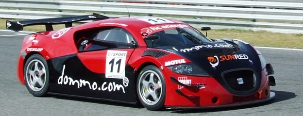 Spanish GT championship. Seat Cupra GT, GTA category, driven by Ginés Vivancos and Joan Vinyes (Sun RED). Qualifying session.